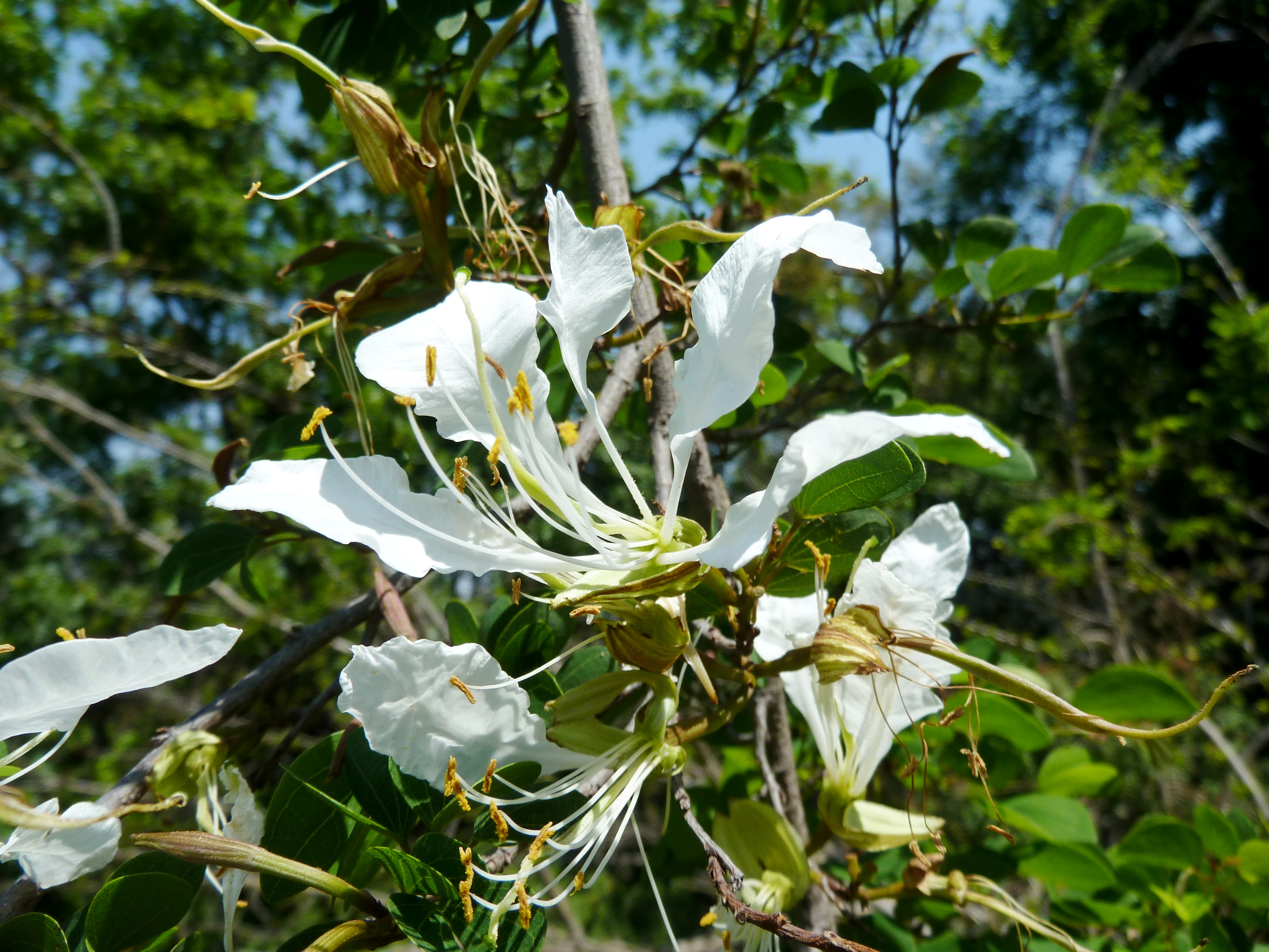 Kei white bauhinia in the Pretoria National Botanical Garden